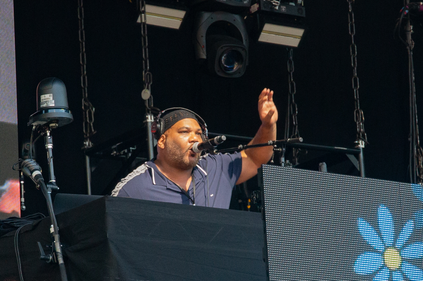 Vincent Mason aka Maseo of De La Soul at Gods of Rap 2019 in Berlin, Germany - Parkbühne Wuhlheide